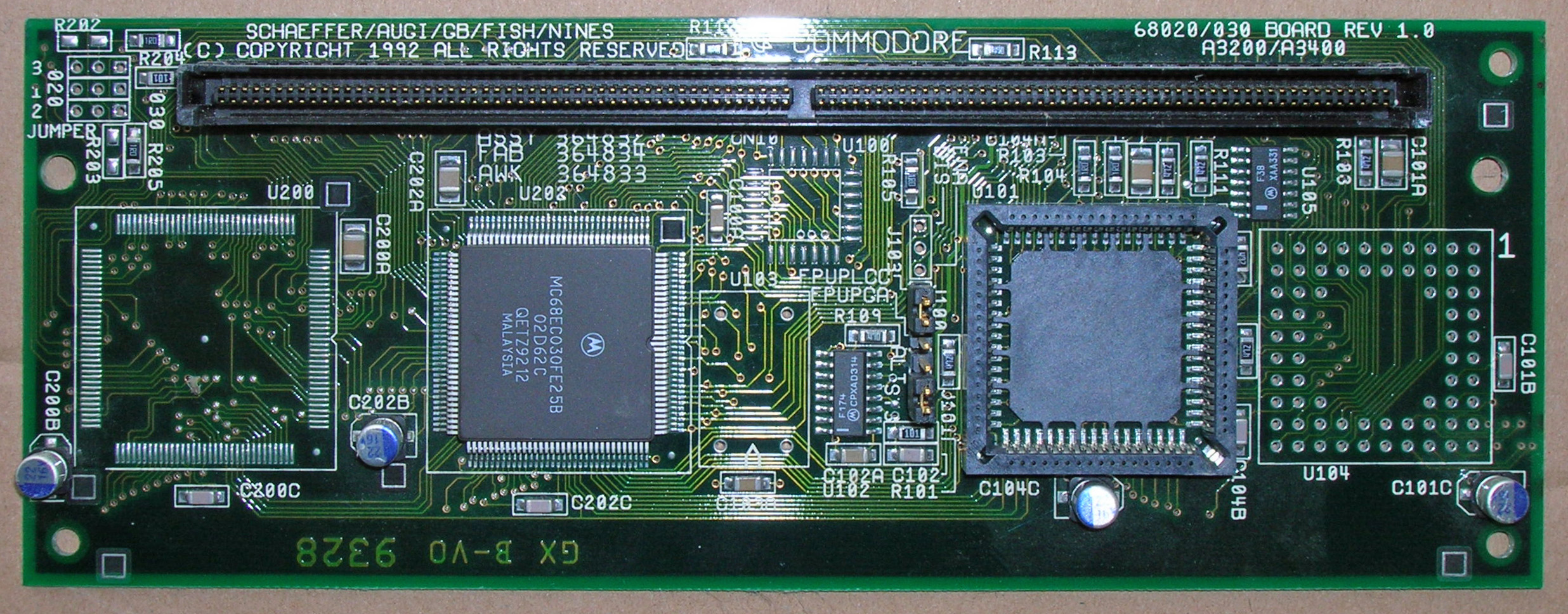 Amiga A3200/A3400 CPU Accelerator card fitted with Motorola 68030 25 MHz CPU